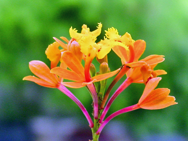 Epidendrum fulgens, plant native of the Brazilian coast. M. A. P. Accardo Filho's plant and photo.